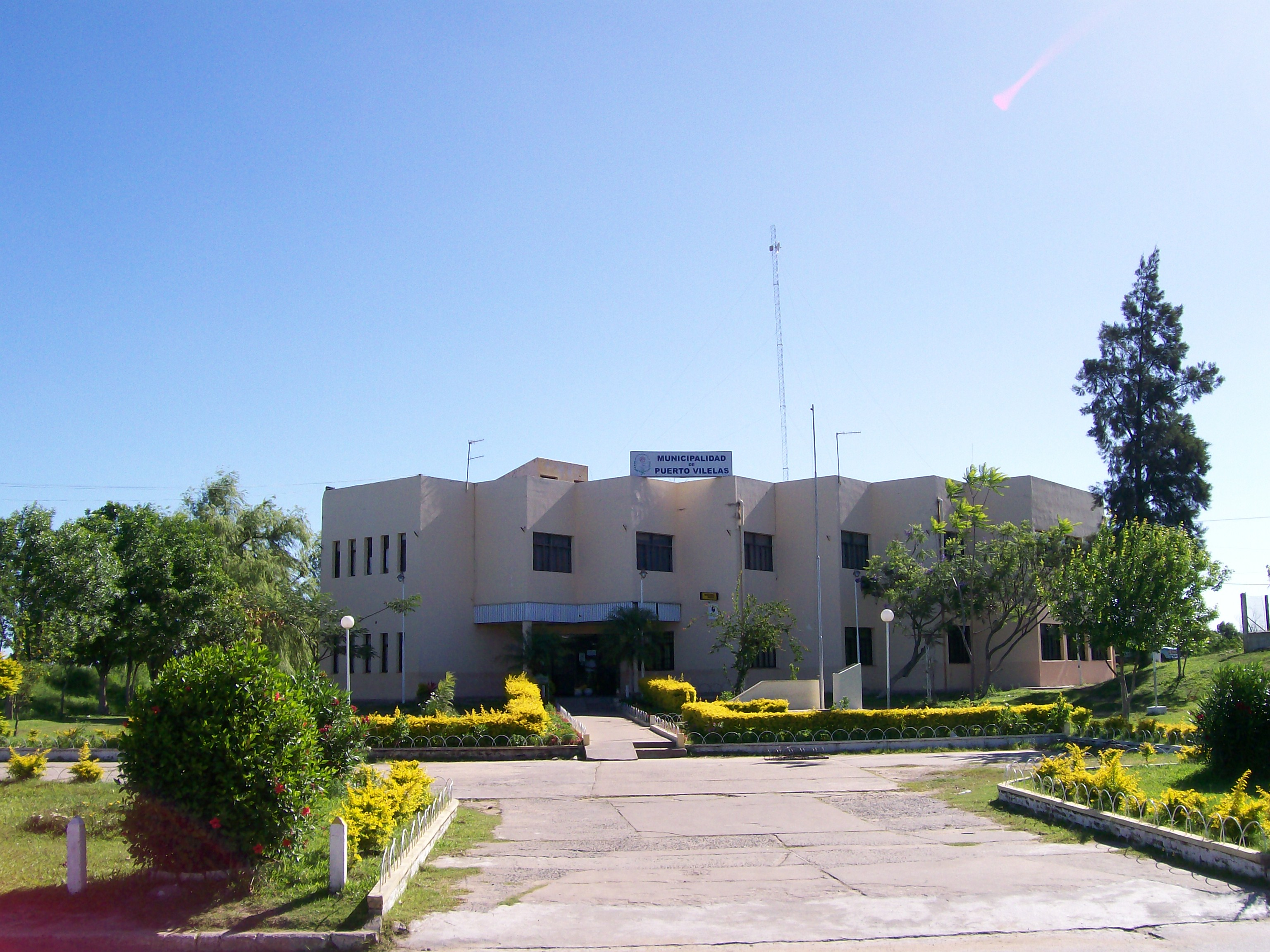 Municipalty of Puerto Vilelas, in Chaco Province, Argentina.